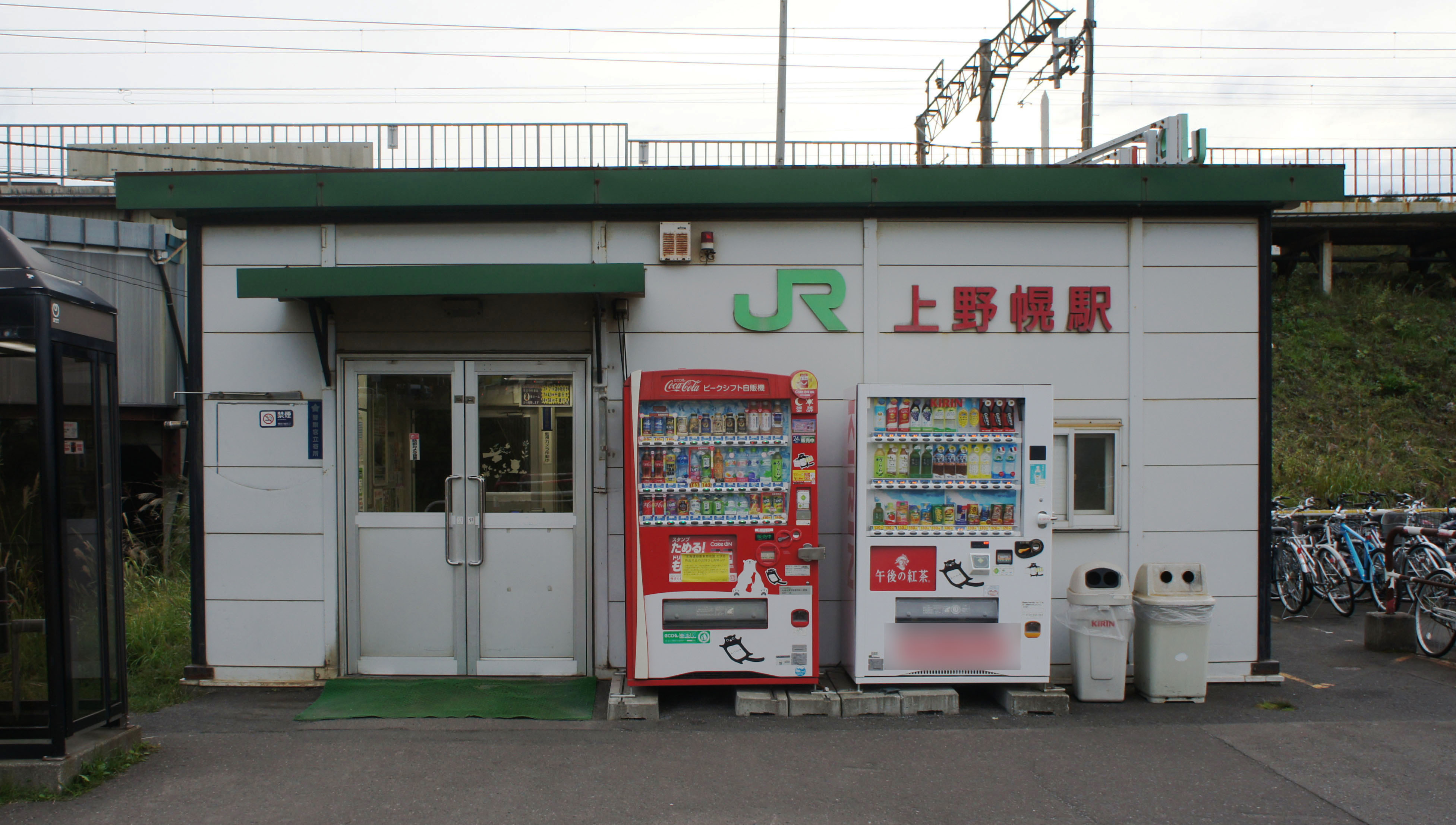 Station building of JR Chitose-Line Kami-Nopporo Station